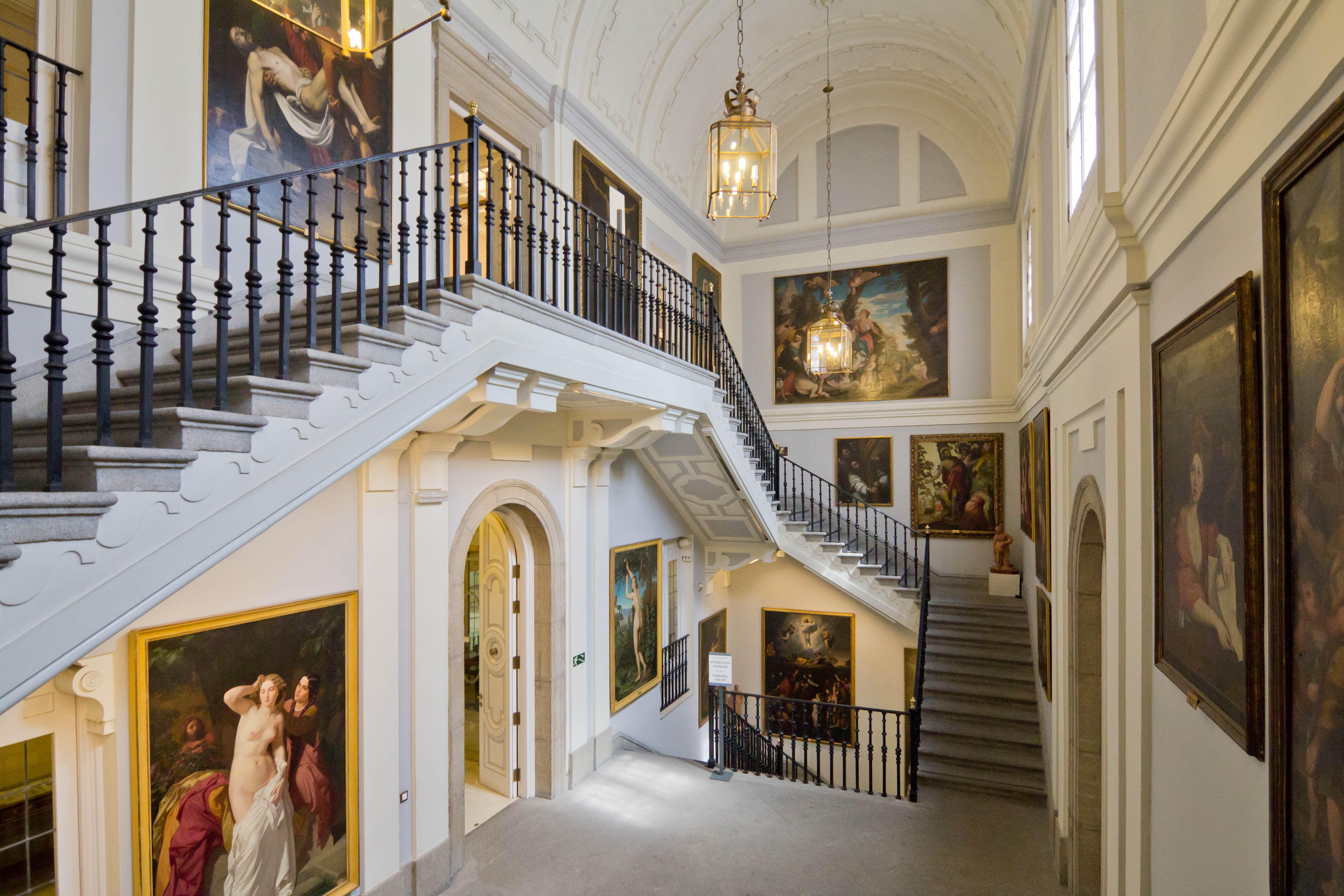 Royal Academy of Fine Arts of San Fernando, Madrid, Spain.